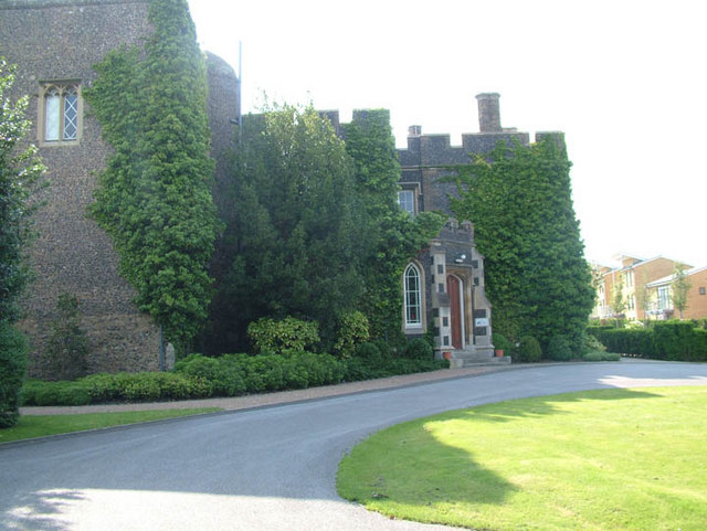 Stone Castle 12th Century Stone Castle. All that remains of the original castle is the tower. It is now used as a banqueting suite for private functions. Taken from the private road to the east.